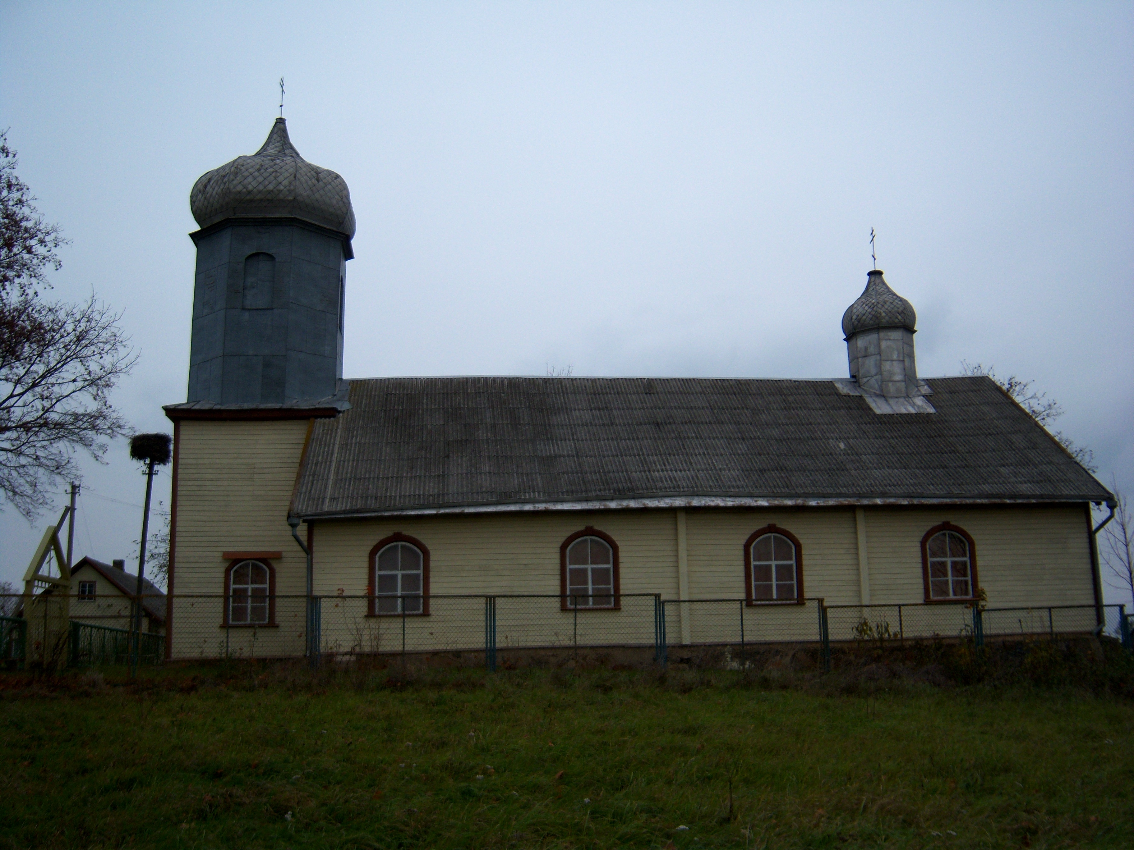 Orthodox Church of Old Believers in Paežeriai (Anykščiai), Lithuania